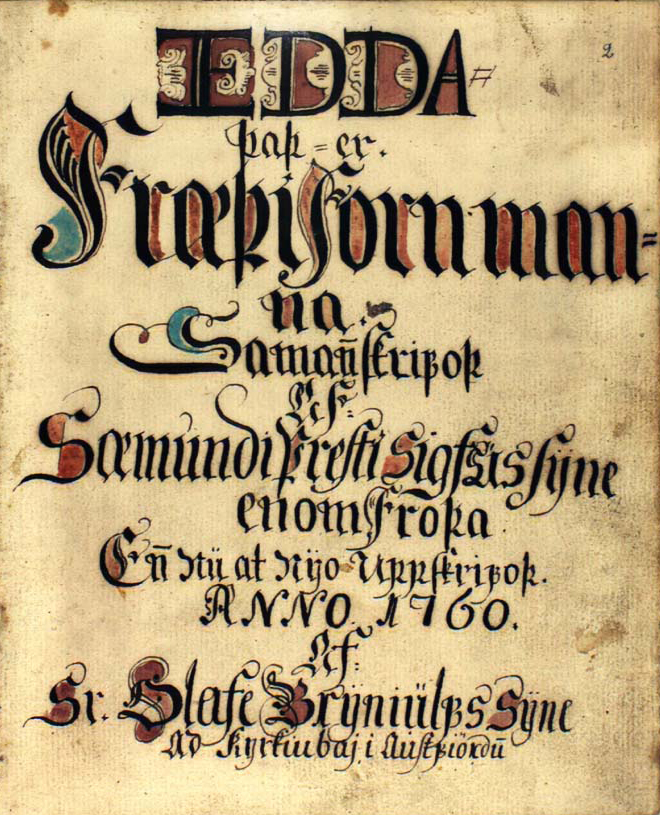 The front page of the 18th century Icelandic manuscript NKS 1867 4to.